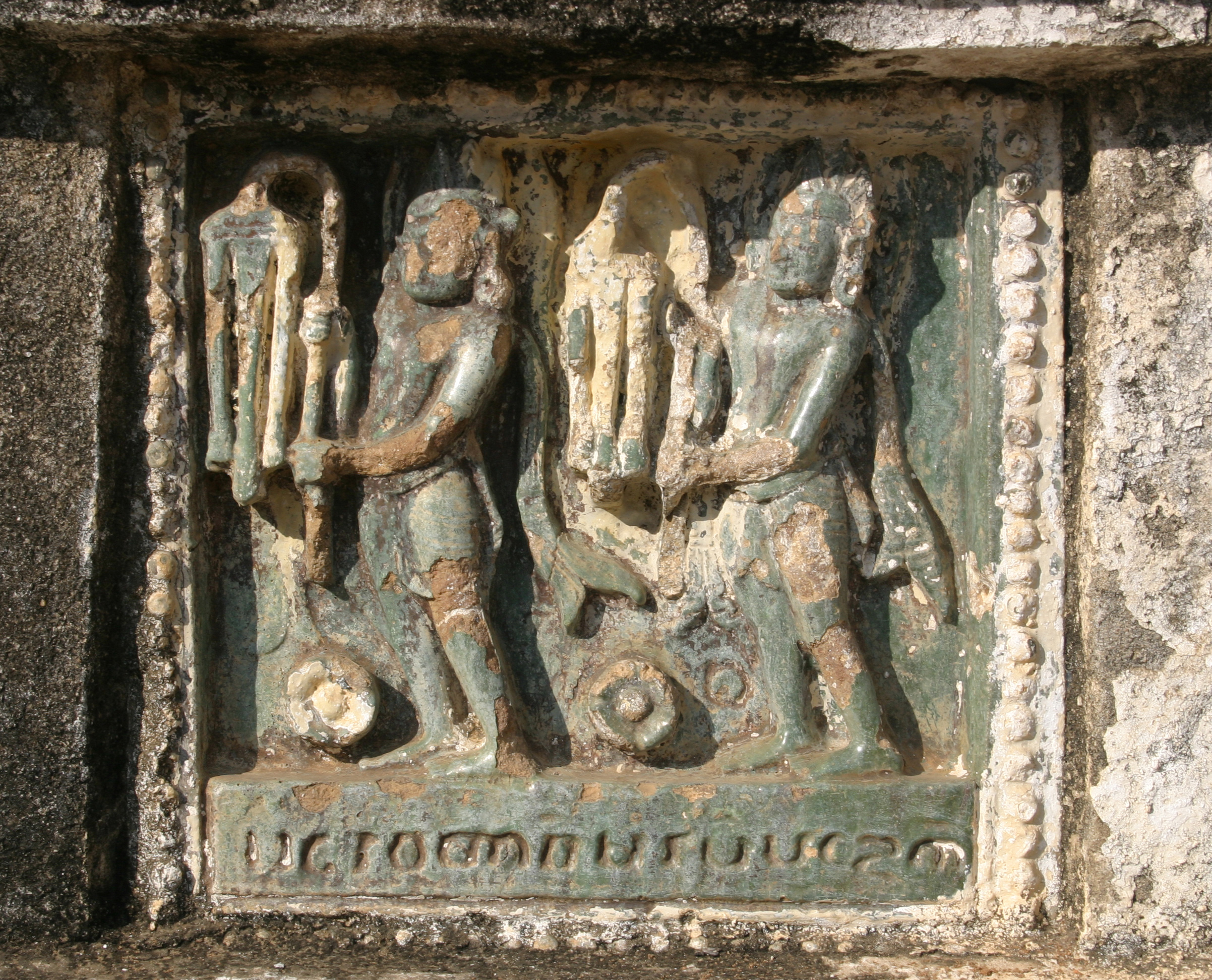 Ananda temple in Bagan, Myanmar.